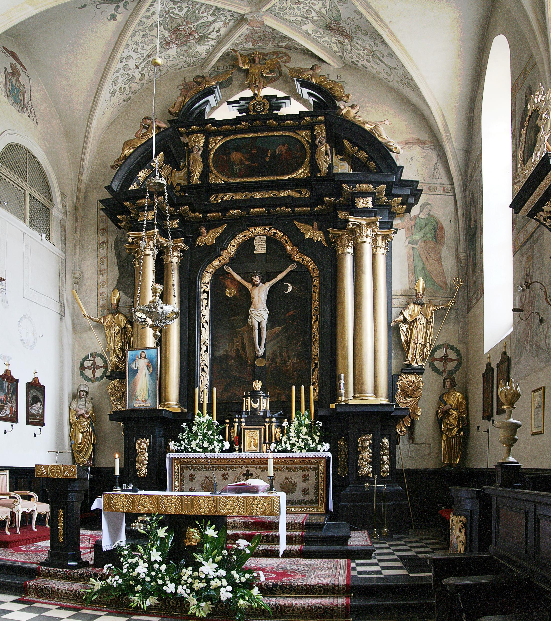 Interior of the Holy Cross Church in Krakow